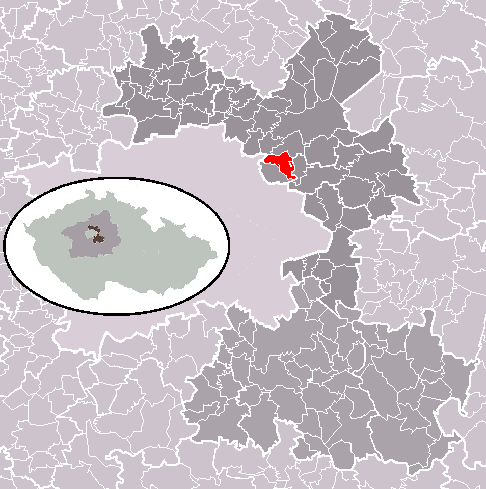 Location of Jenštejn municipality within Prague-East District and administrative area of Brandýs nad Labem-Stará Boleslav as a Municipality with Extended Competence.